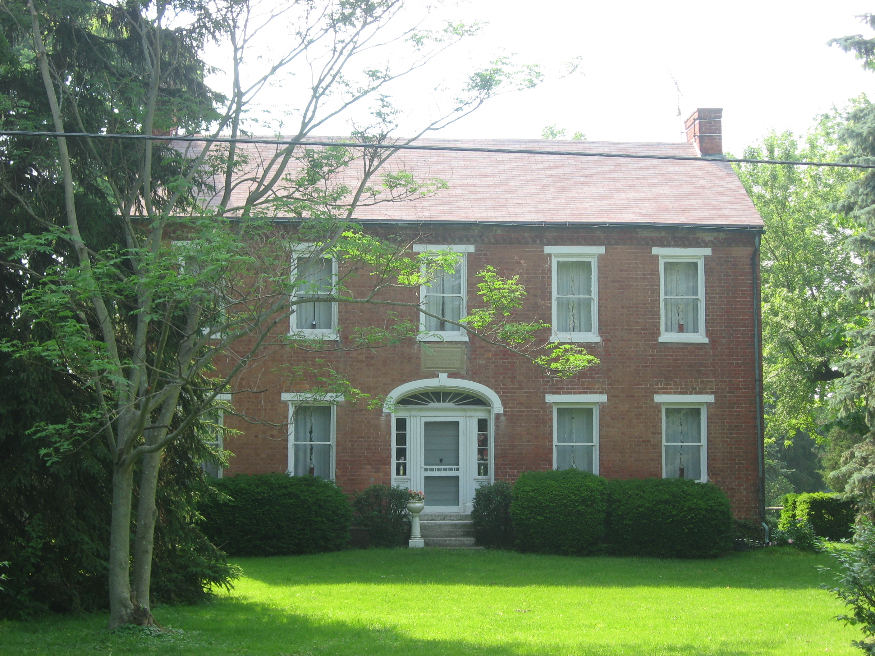 Front of the Berryhill-Morris House, located at 3113 Ferry Road south of Bellbrook in Sugarcreek Township, Greene County, Ohio, United States. Built in 1832, it is listed on the National Register of Historic Places.